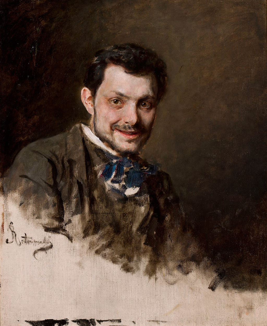 Portrait of the artist, Wacław Szymanowski (1859-1930)